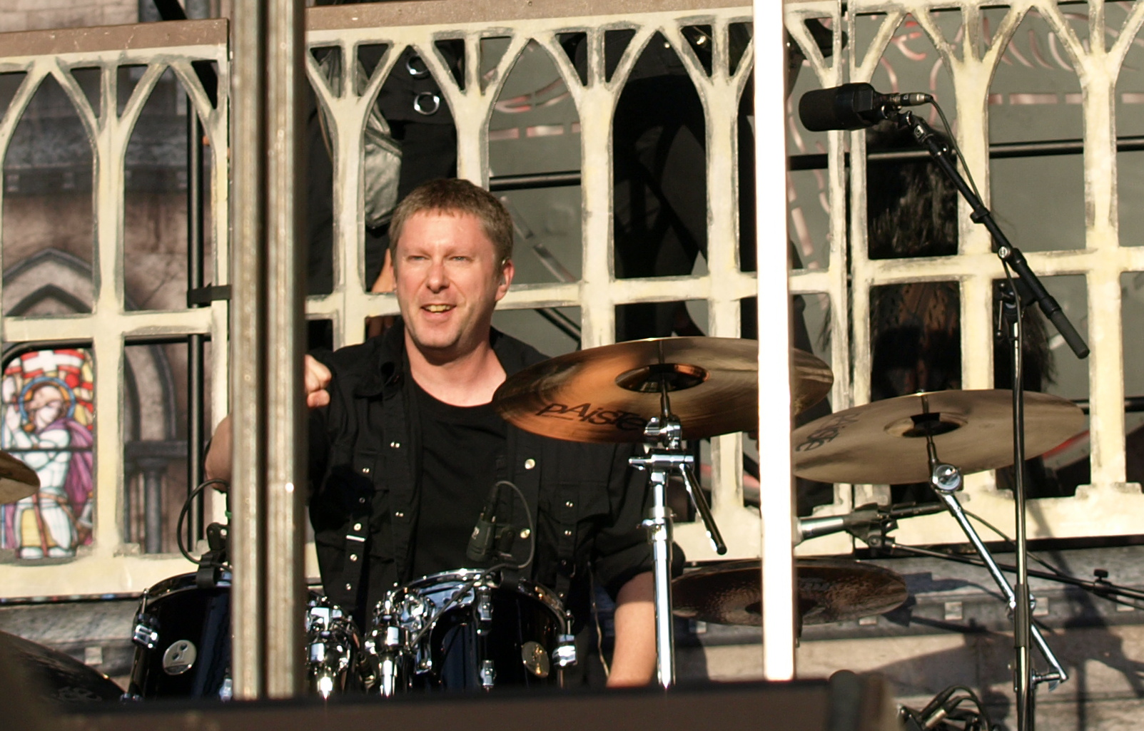 King Diamond and his band live at Tuska Open Air 2013